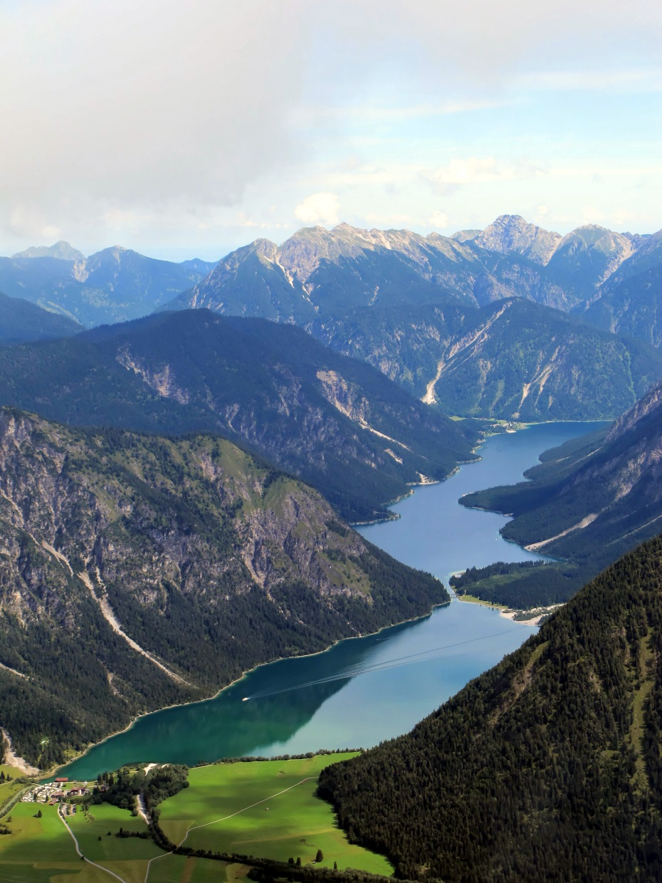 Lake "Heiterwanger See" (in Front) and Lake "Plansee" (Back), View from South from Mountain Thaneller